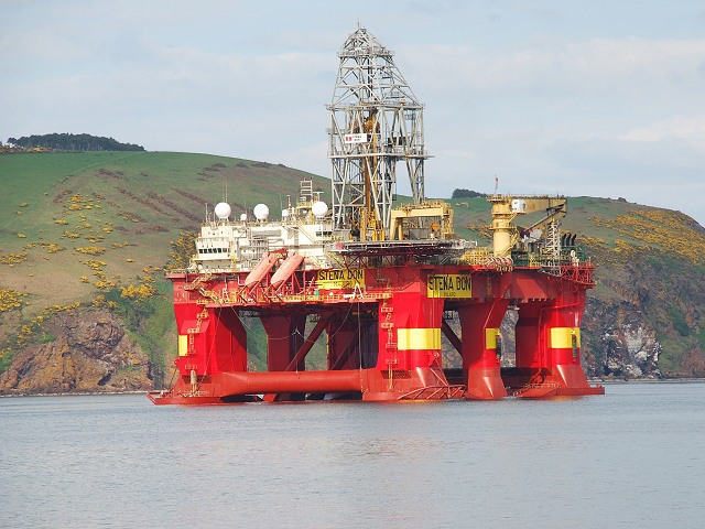 Stena Don is a dynamically positioned (Class 3), harsh environment semi-submersible drilling, completion and workover vessel for world-wide operations.